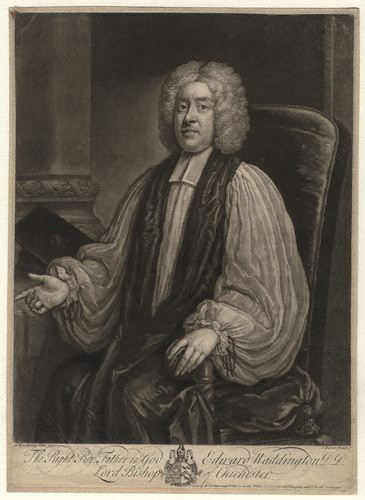 Portrait of Edward Waddington (1670?-1731)